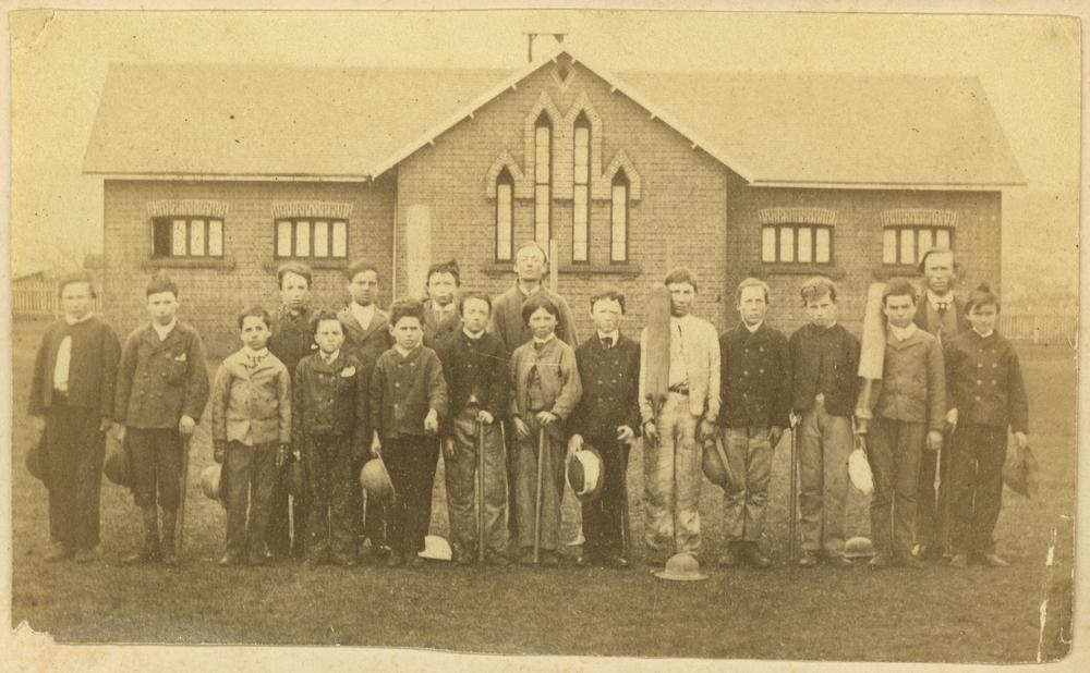 North Toowoomba Boys School Queensland, early 1900s